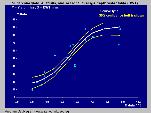 S-curve used to model the relation between crop yield of sugarcane and depth of the watertable